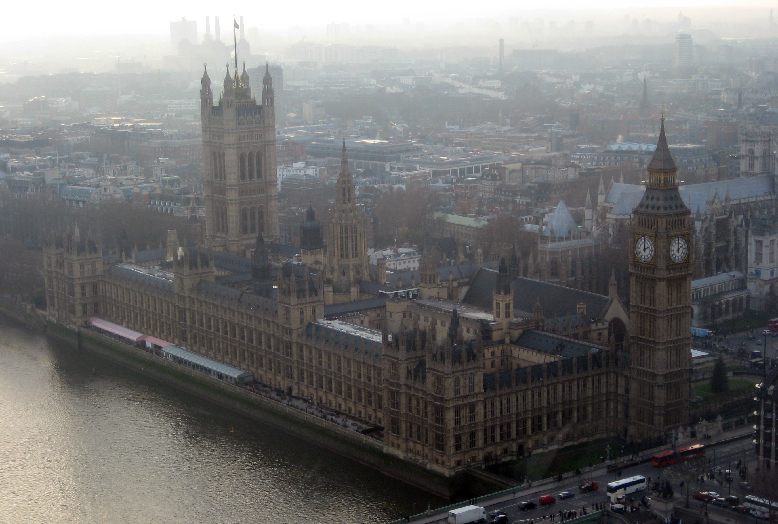 The Palace of Westminster as seen from the London Eye.